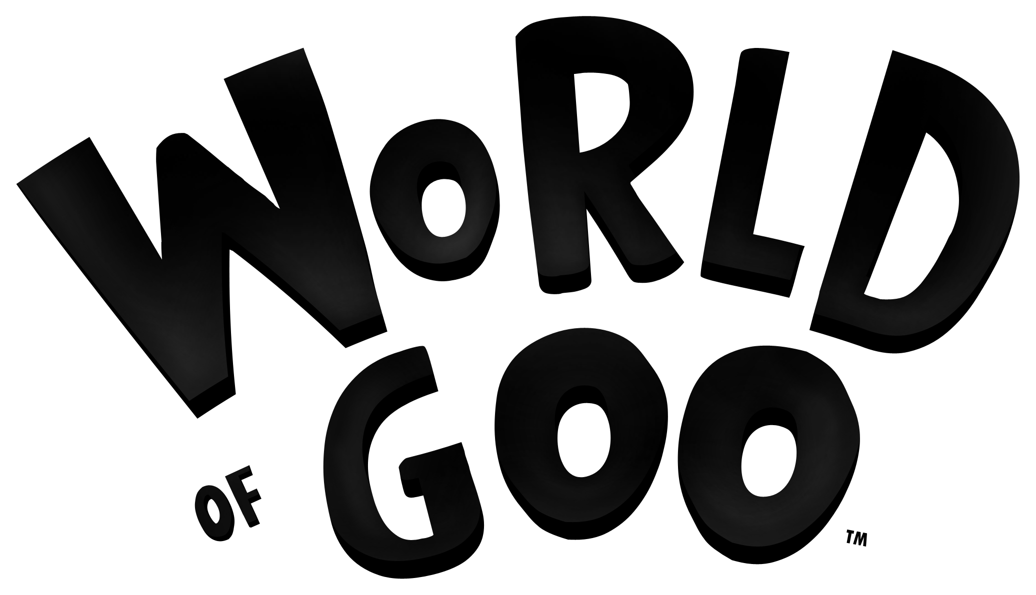 World of Goo logo